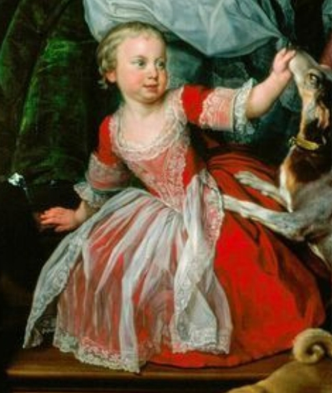 Prince Frederick of Great Britain (1750-1765)